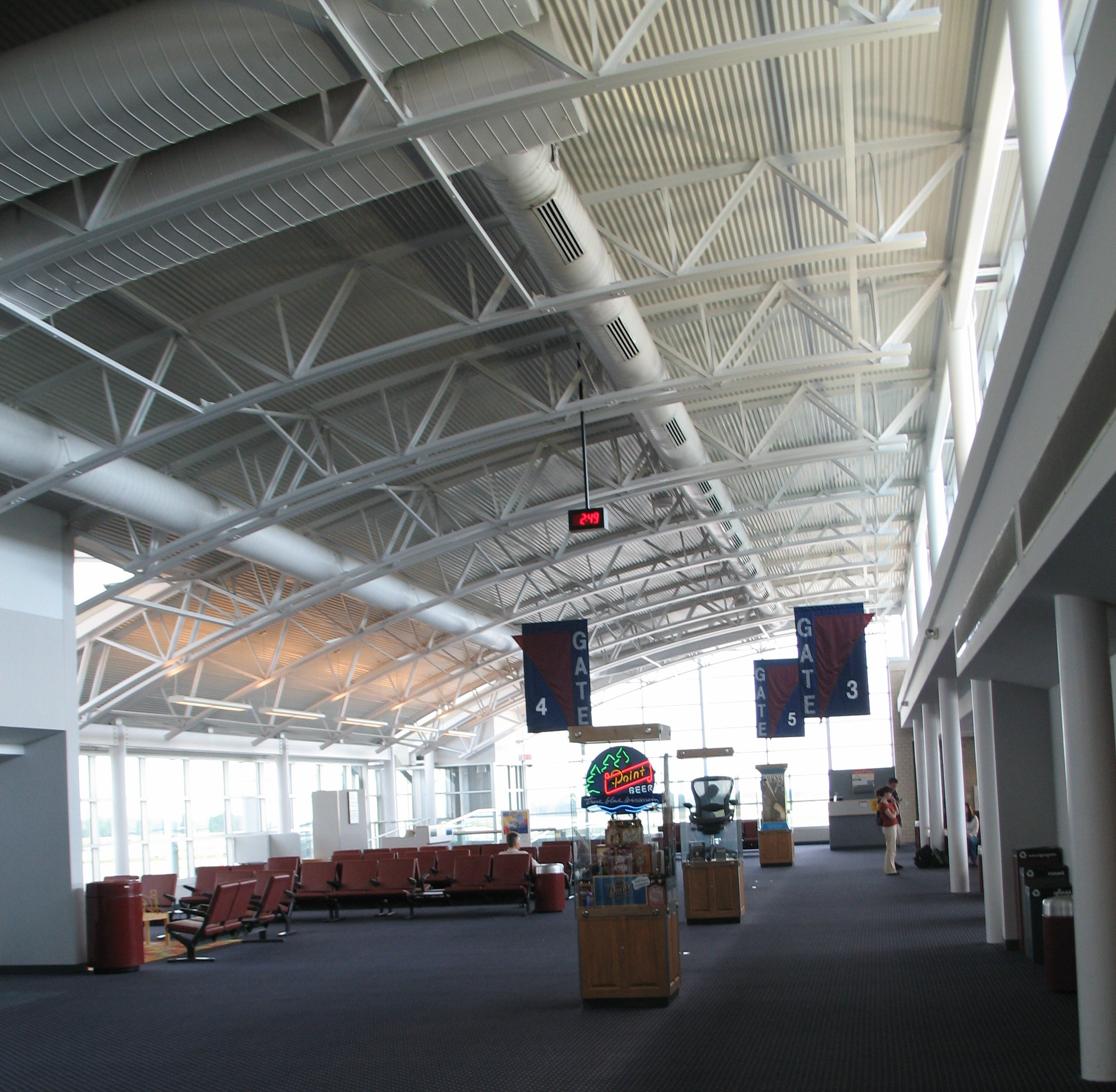 Central Wisconsin Airport